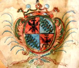 Arms Benvenuti